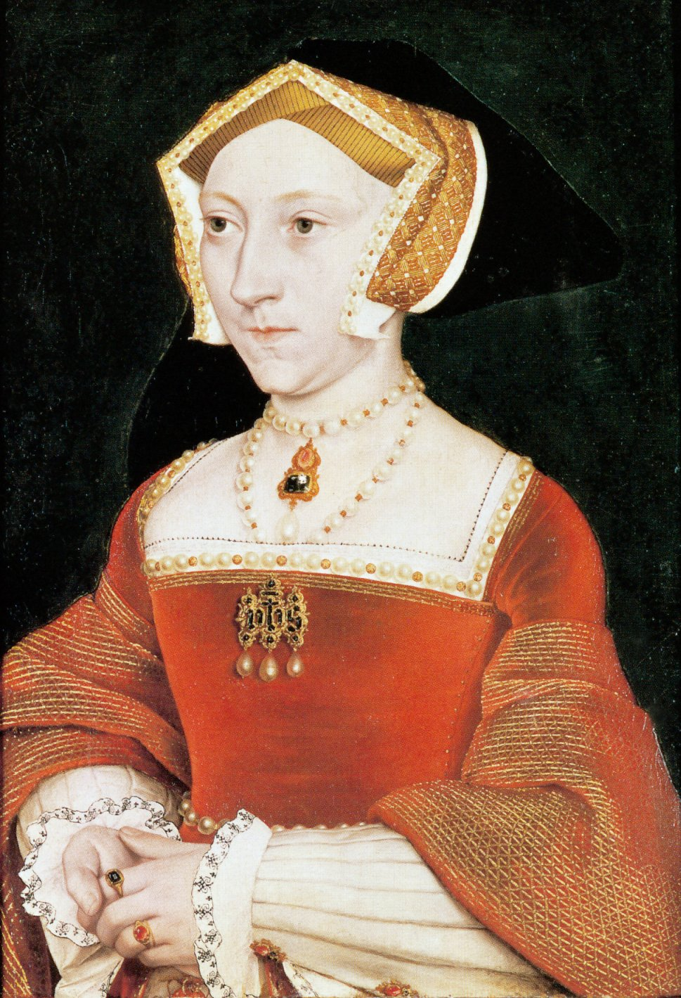 Portrait of Jane Seymour, third wife of Henry VIII, executed by the workshop of Hans Holbein the Younger. Presumably based on the portrait of Jane Seymour by Holbein in the Kunsthistorisches Museum, Vienna (see File:Hans Holbein d. J. 032b.jpg). This portrait matches the depiction of Jane Seymour in Holbein's Whitehall wall-painting, which now survives only in a copy by Remee van Leemput (see File:Remigius van Leemput 001.jpg). It also follows Holbein's preparatory drawing (see File:Holbein Jane Seymour drawing.jpg). Little is known about Holbein's workshop, but images of the Tudor royals were in demand as diplomatic gifts, and, according to Buck, it is possible that this replica, closely based on the original pattern, was produced for that purpose. The hard modelling of the paint distingushes the handling from Holbein's. Rowlands regards the painting as "most unlikely to have been produced in Holbein's studio".